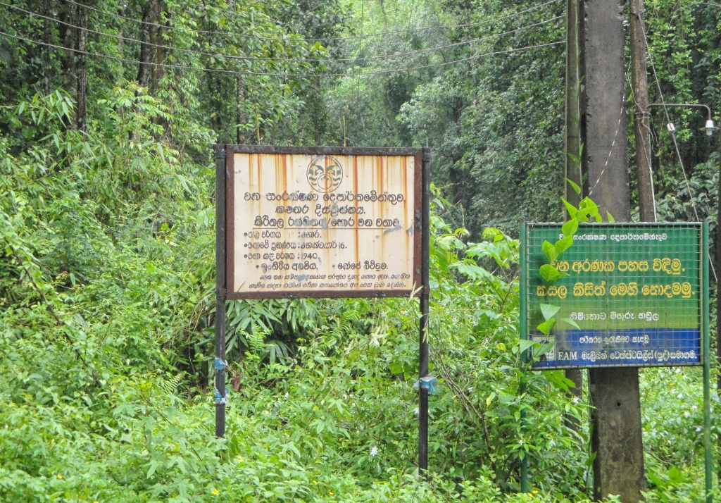 Hora Kele01